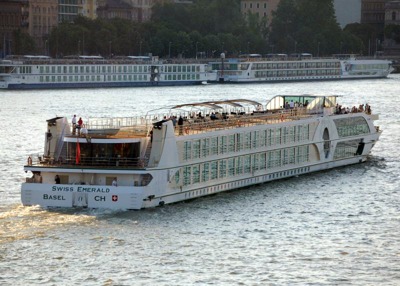 Swiss Emerald on the Danube in Budapest, Hungary, 2009.